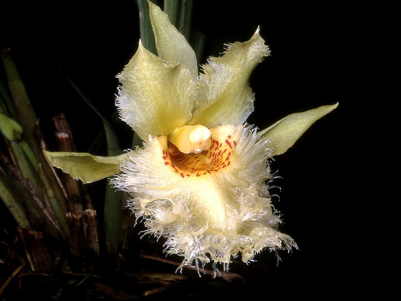 Chondroscaphe chestertonii - single flower